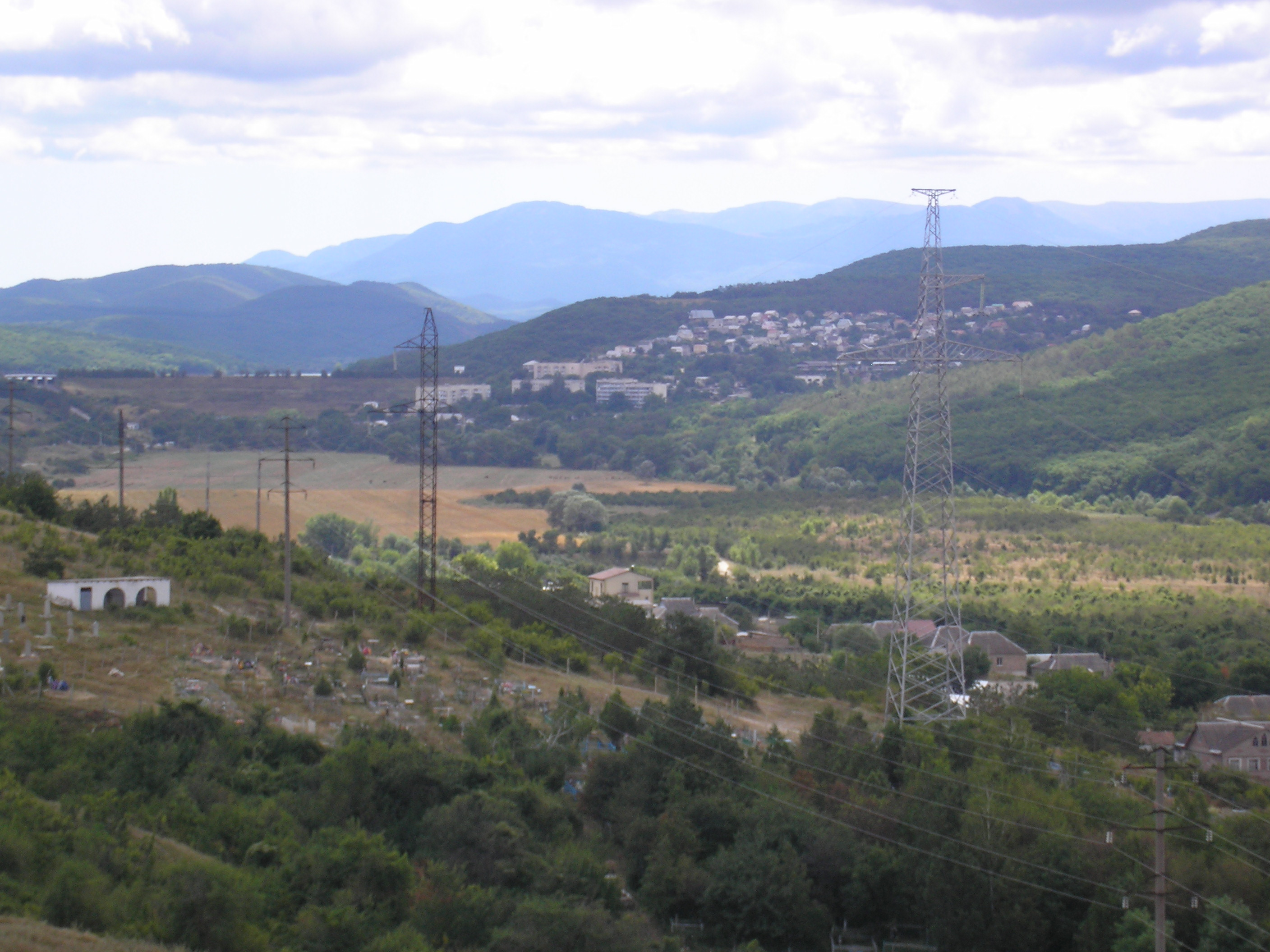 Village Kizilovka, Simferopol raion, Crimea, view from the west